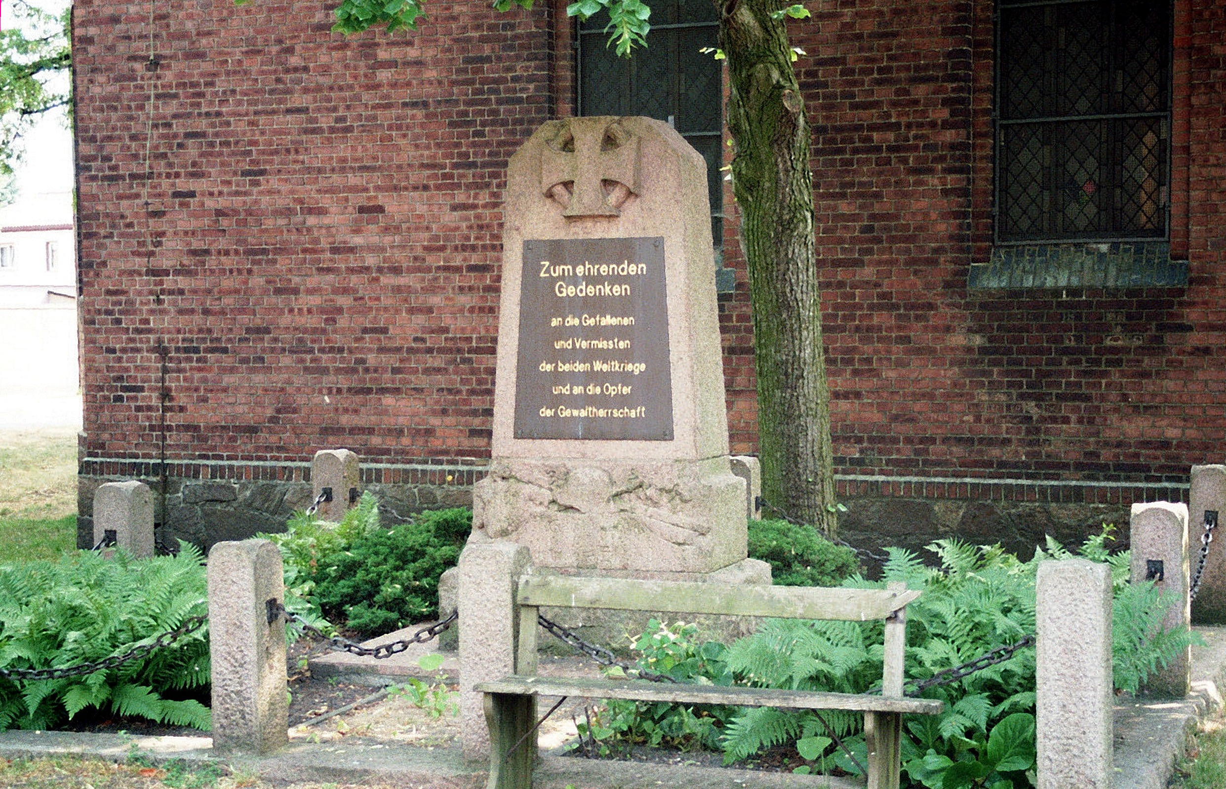 Elsnigk (Osternienburger Land), the war memorial